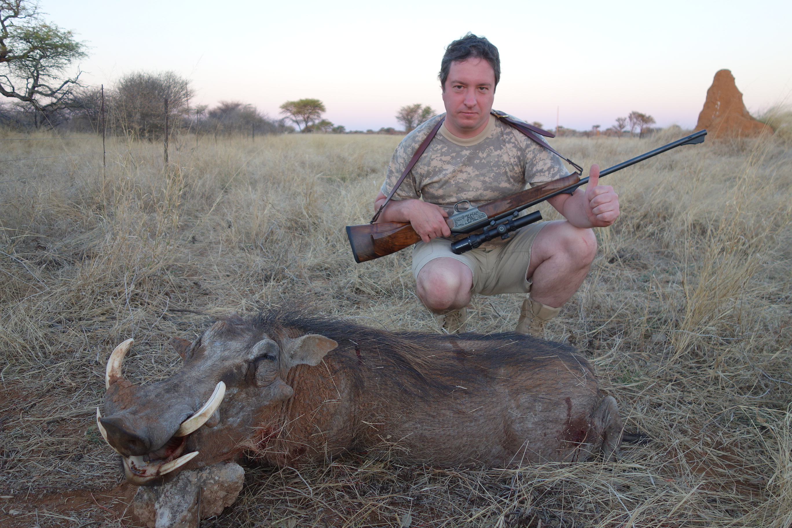 Hunter in Namibia with warthog prize